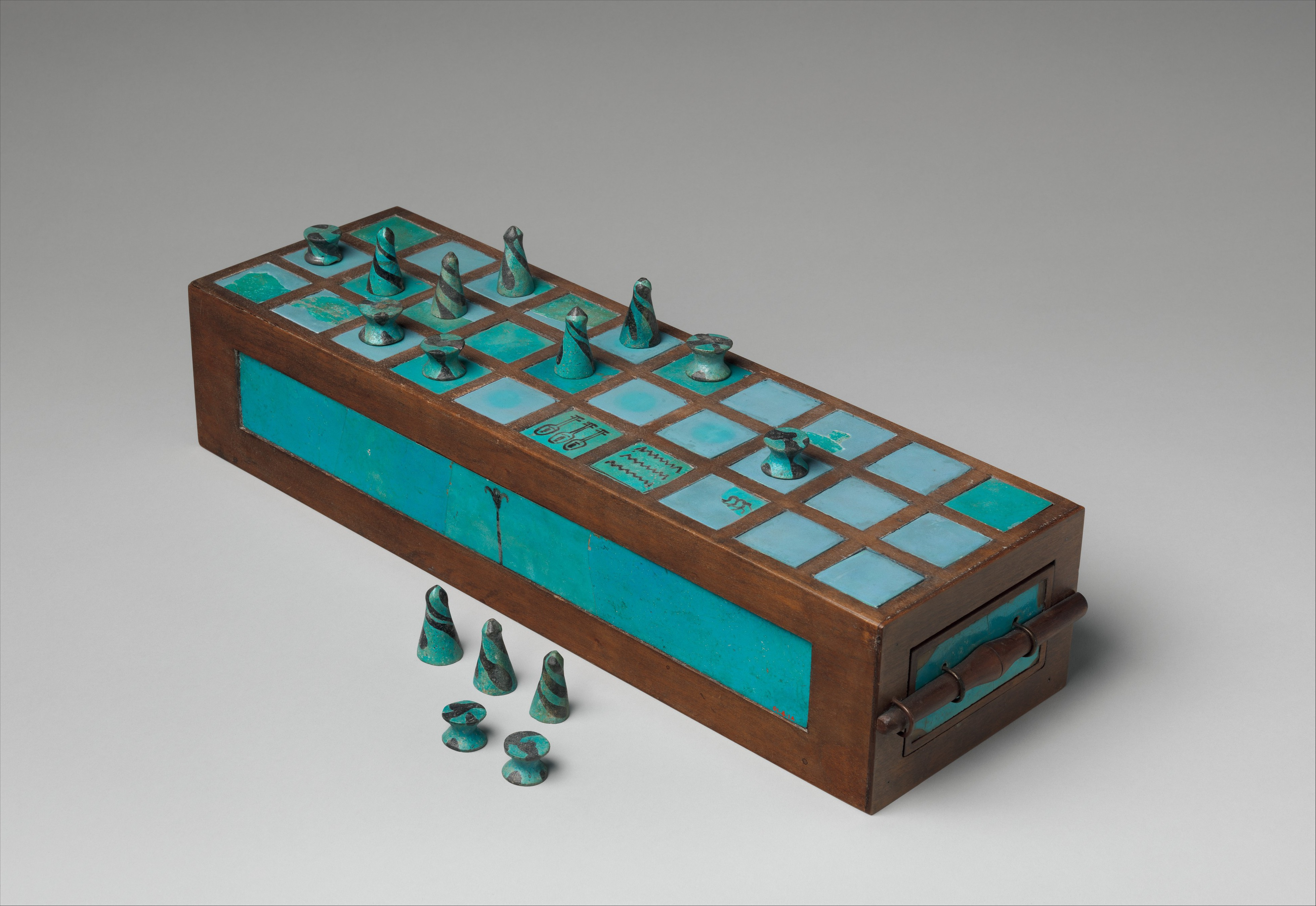 Game Board